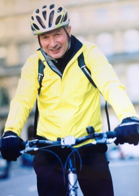 Michael Farmer, Lord Farmer